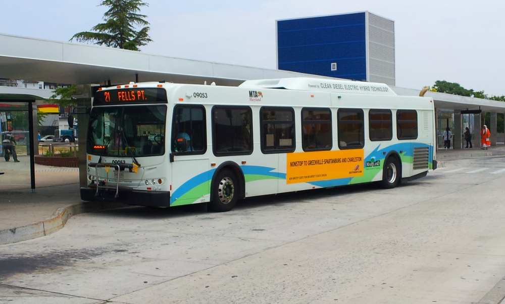 MTA Maryland New Flyer DE41LFR #5053 on the #21 line.